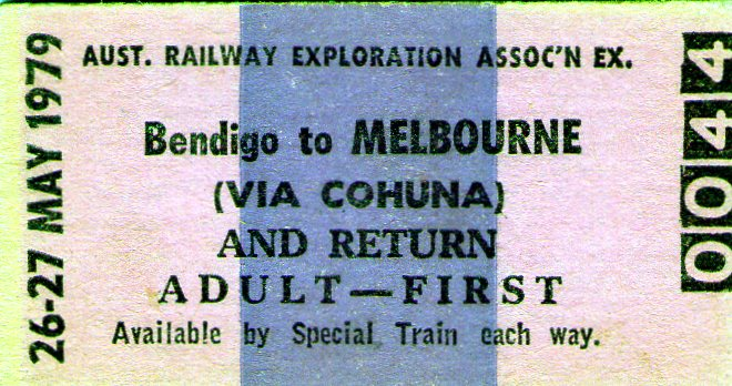 Bendigo-Cohuna rail ticket 1979